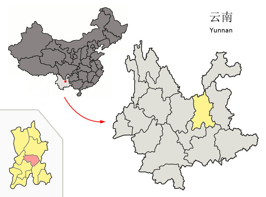 Location of Songming County (pink) and Kunming prefecture (yellow) within Yunnan province of China Map drawn in september 2007 using various sources, mainly : Yunnan province administrative regions GIS data: 1:1M, County level, 1990 Yunnan Counties map from